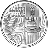 Coin of Ukraine